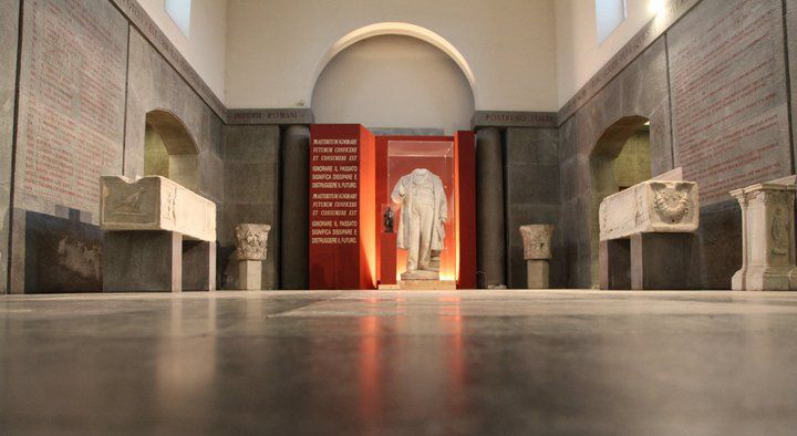 Museo Leone